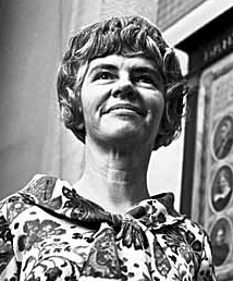 Photograph of the Danish politician Camma Larsen-Ledet (1915-1991)